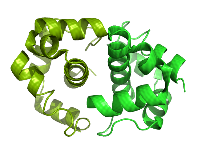 Cartoon representaion of Audrey Stevens' Inhibitor, PDB entry 1jr5